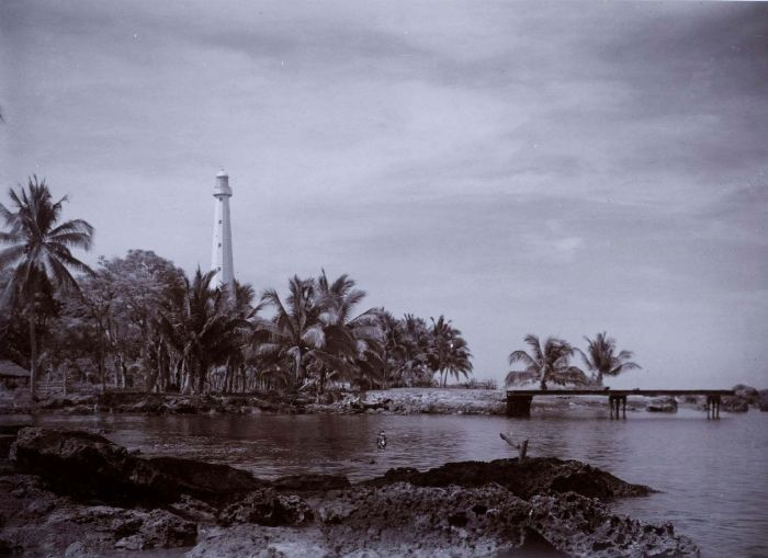 Lighthouse at Fourth Point, Anyer Kidul